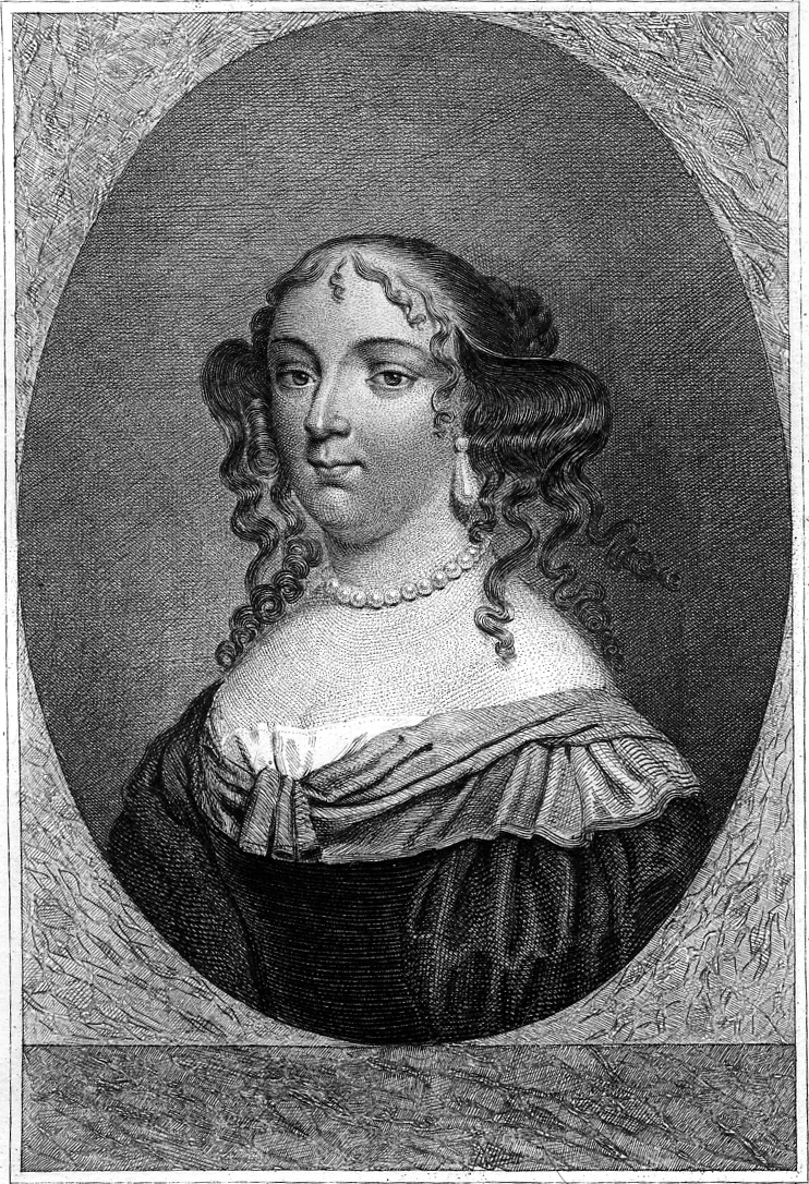 Anne de La Vigne (1634-1684), French poetess.